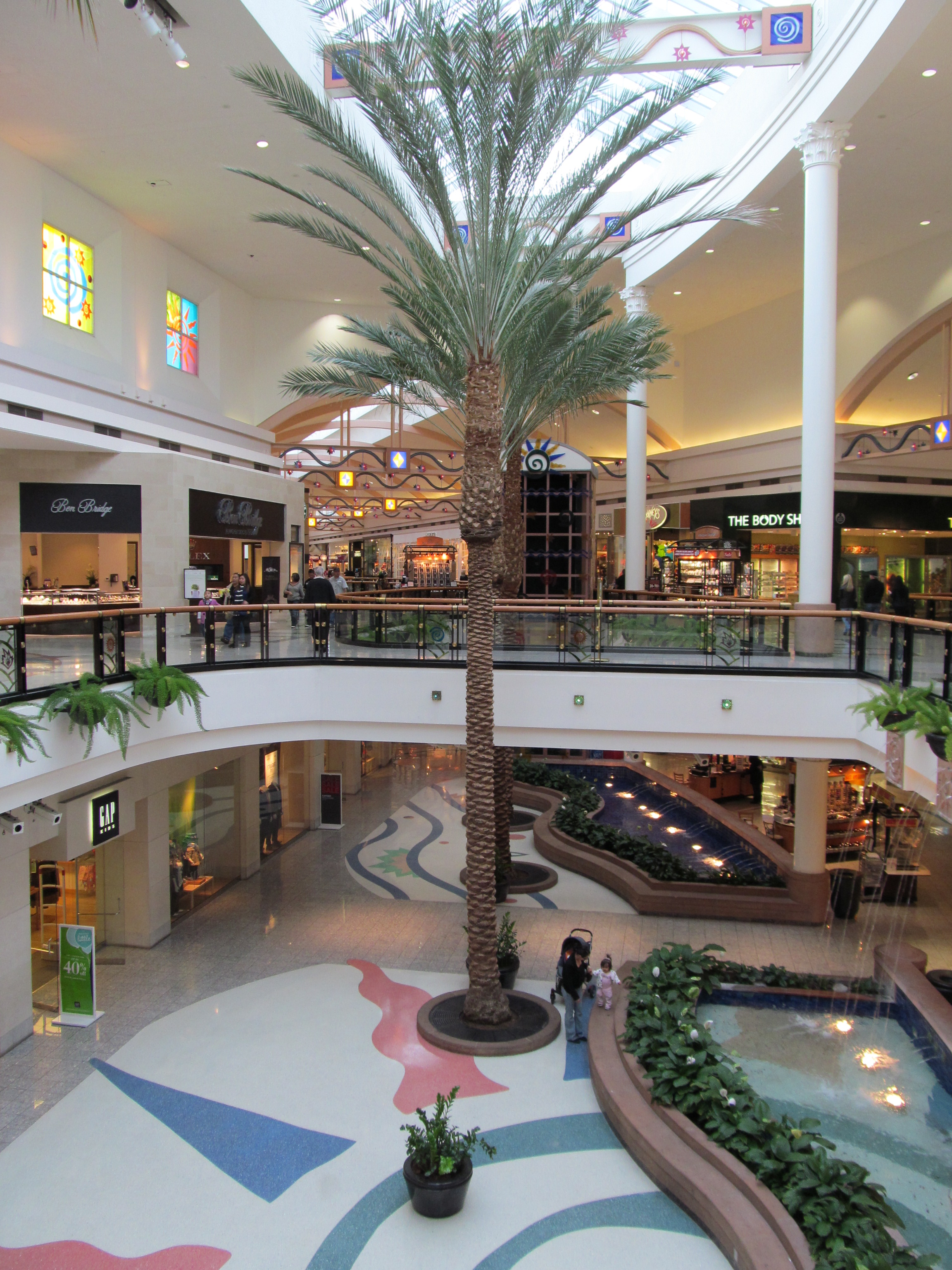 Galleria at Sunset, Henderson Nevada